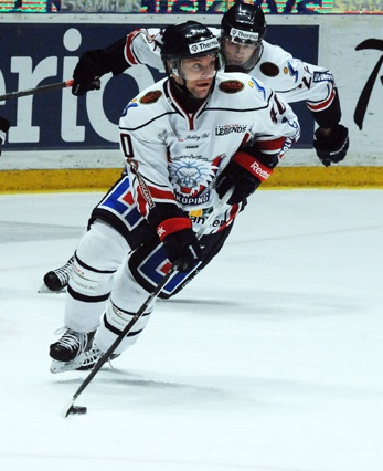 Pär Arlbrandt during a SHL game against AIK.